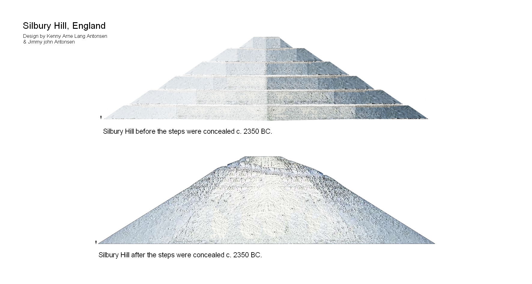 Silbury Hill, England.